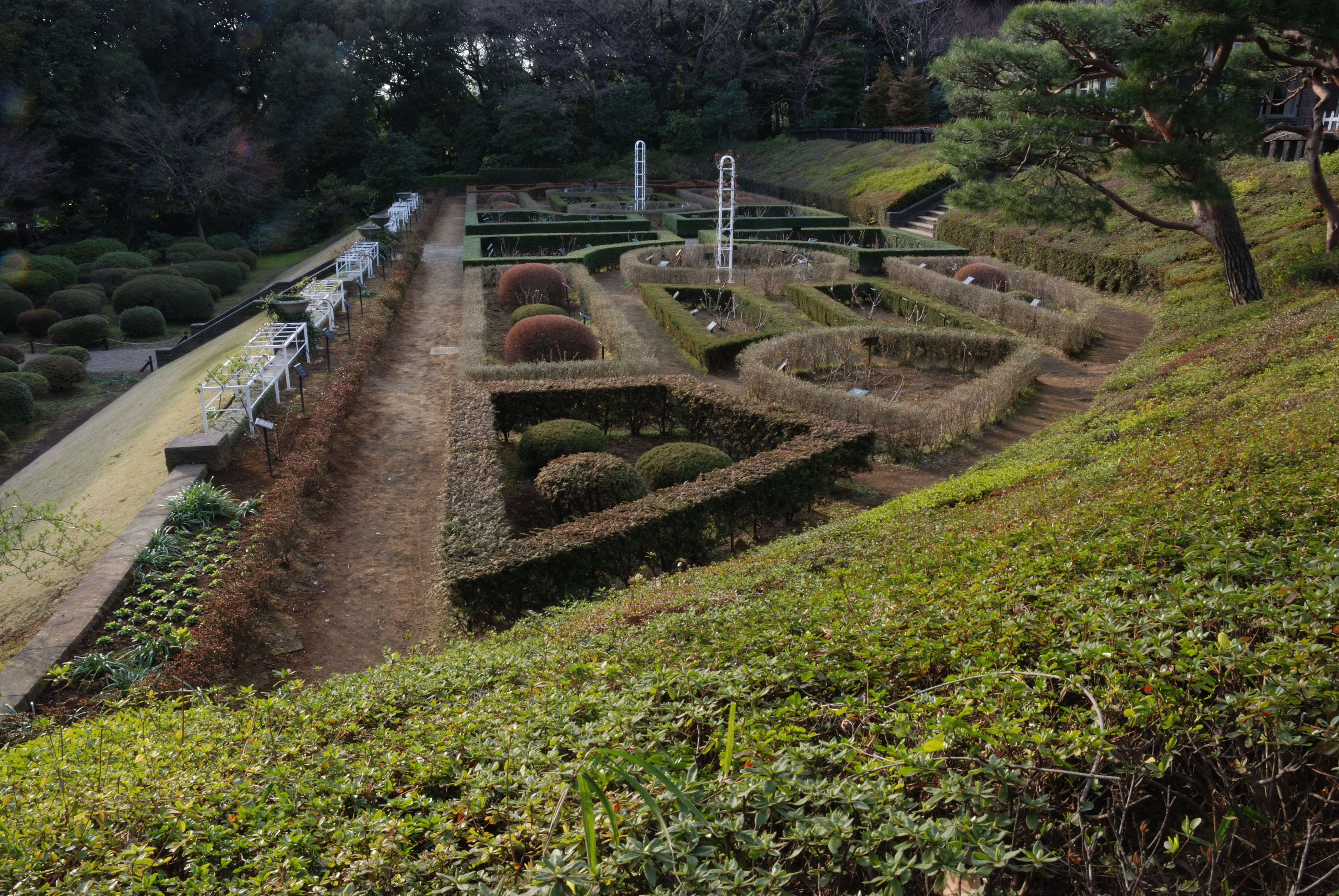 Rose gardens at Kyu-Furukawa Gardens